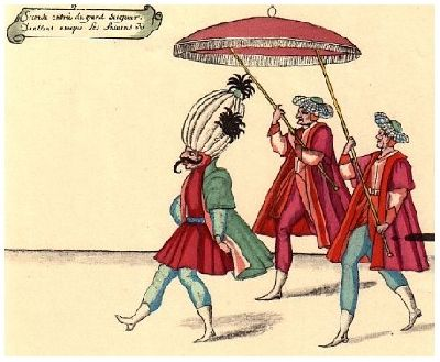 Le_Grand_Bal_de_la_Douairière_de_Billebahaut_Entrance_of_the_Great_Turk_1626